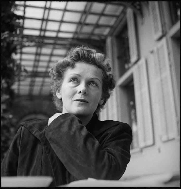 Elisabeth Schwarzkopf at the Lucerne Festival